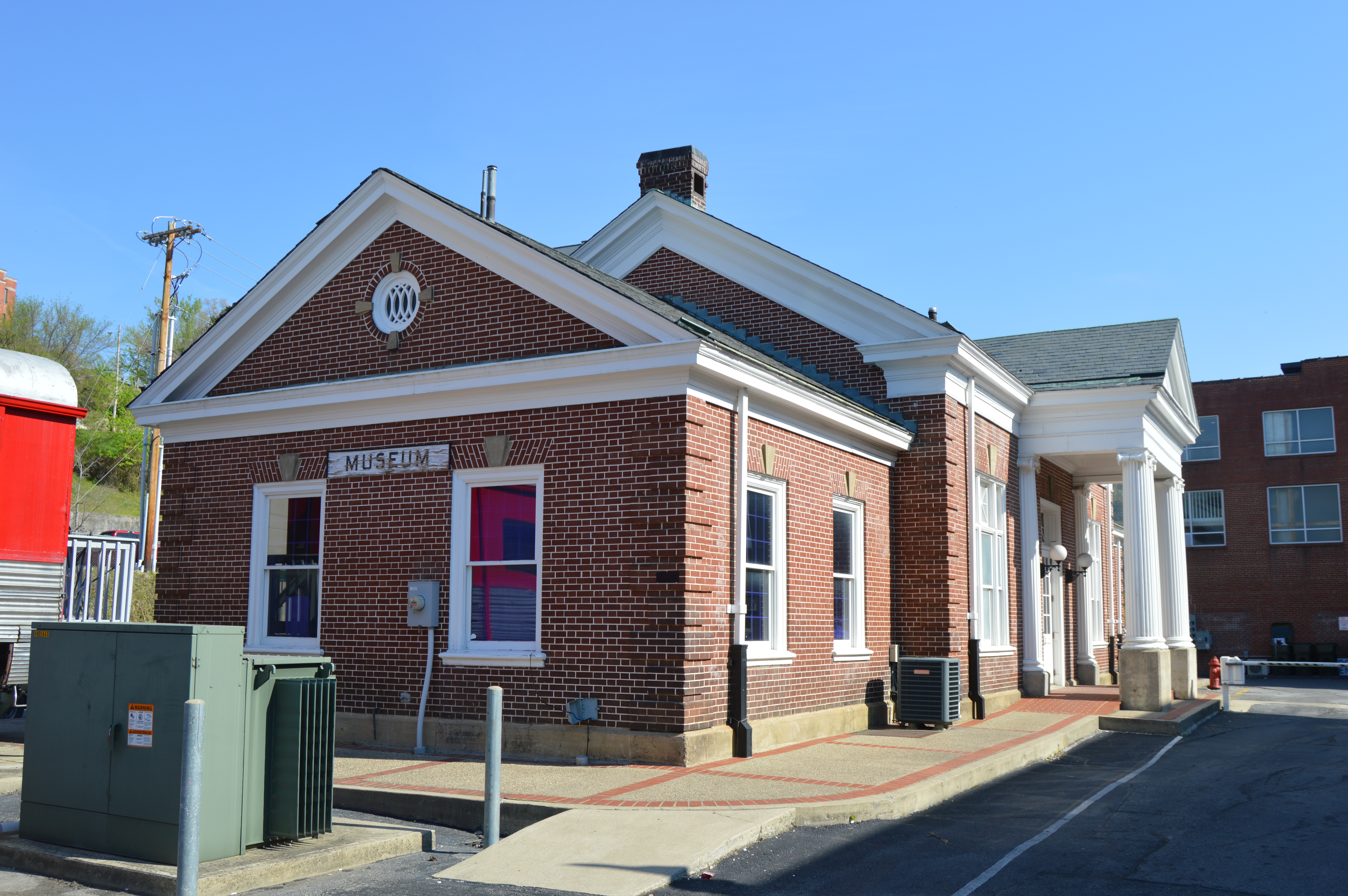 Southern end and eastern front of the Pikeville C&O depot (now the Big Sandy Heritage Center), located at 773 Hambley Boulevard in Pikeville, Kentucky, United States. Built in 1923, it is listed on the National Register of Historic Places.